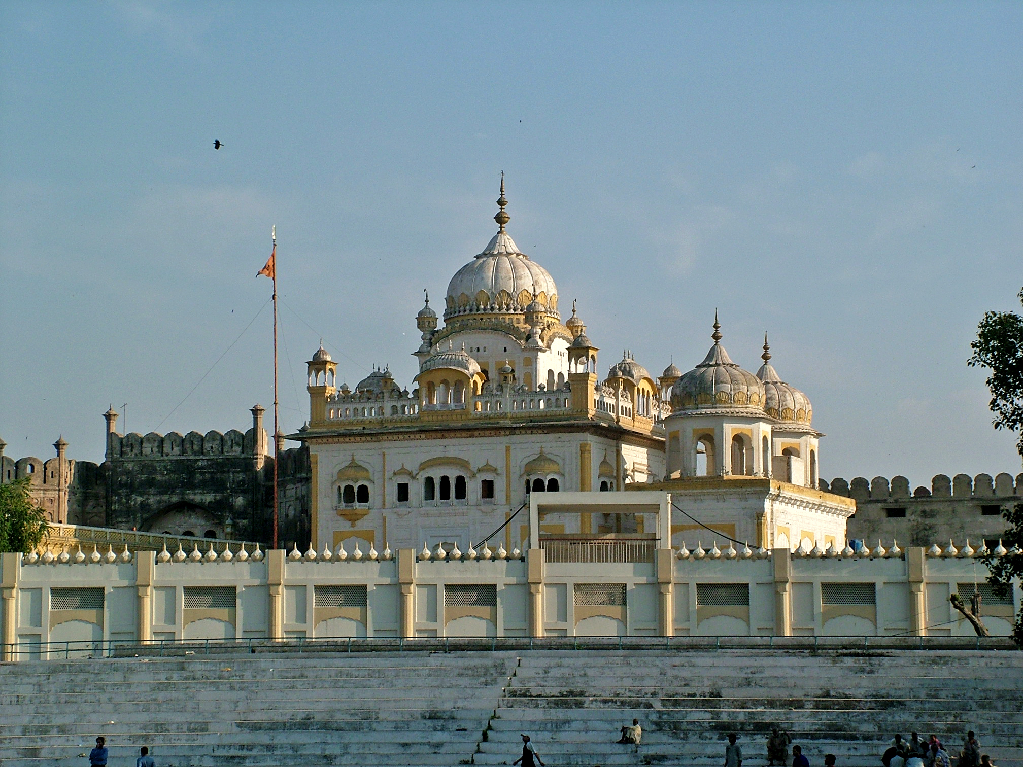 Tomb of Ranjit Singh, Lahore.